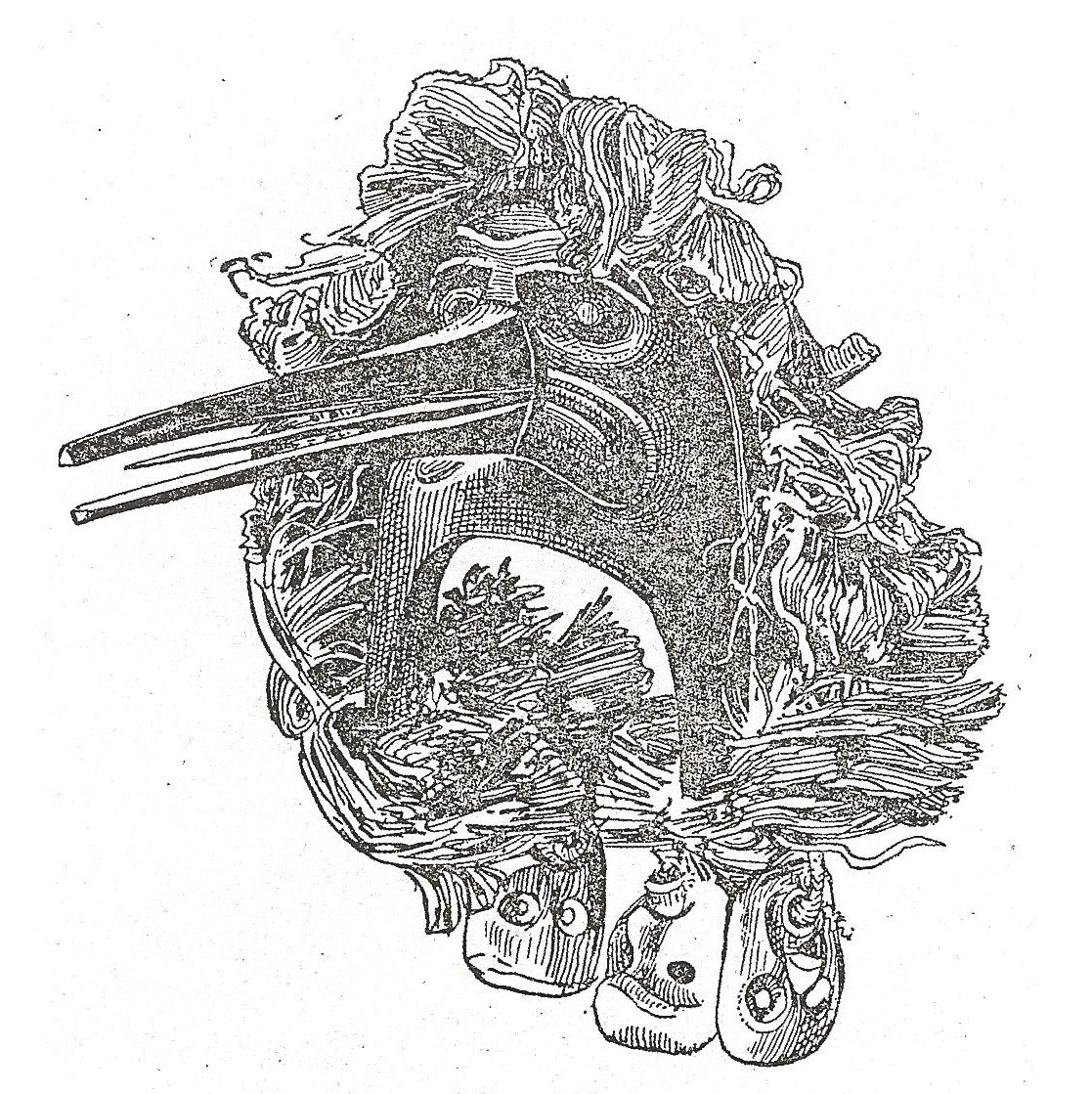 "Fig. 128 HEAD MASK OF NĀ'NAQAUALIL, REPRESENTING THE HŌ'XHOKw". According to Kate Duncan, "With its cedar bark ruff and carved wooden skulls hanging below, the mask represents one of the cannibal bird helpers of Bakbakwalinooksiwey..."